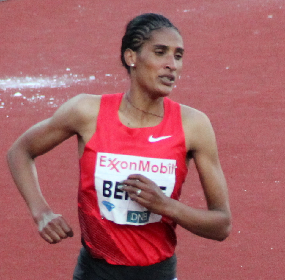 Mekdes Bekele at the 2012 Bislett Games